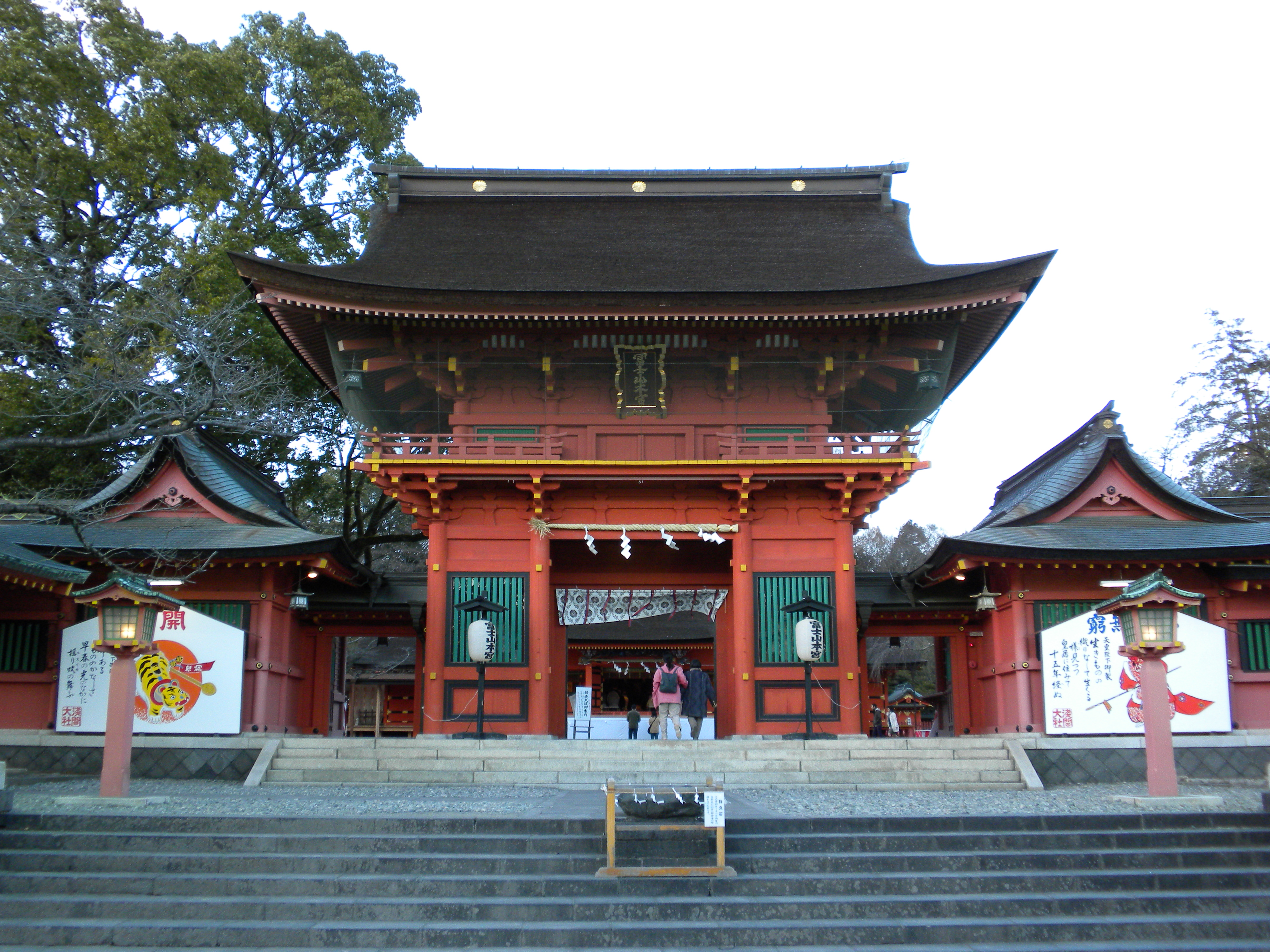 Fujinomiya Hongu Sengen Taisha Roumon